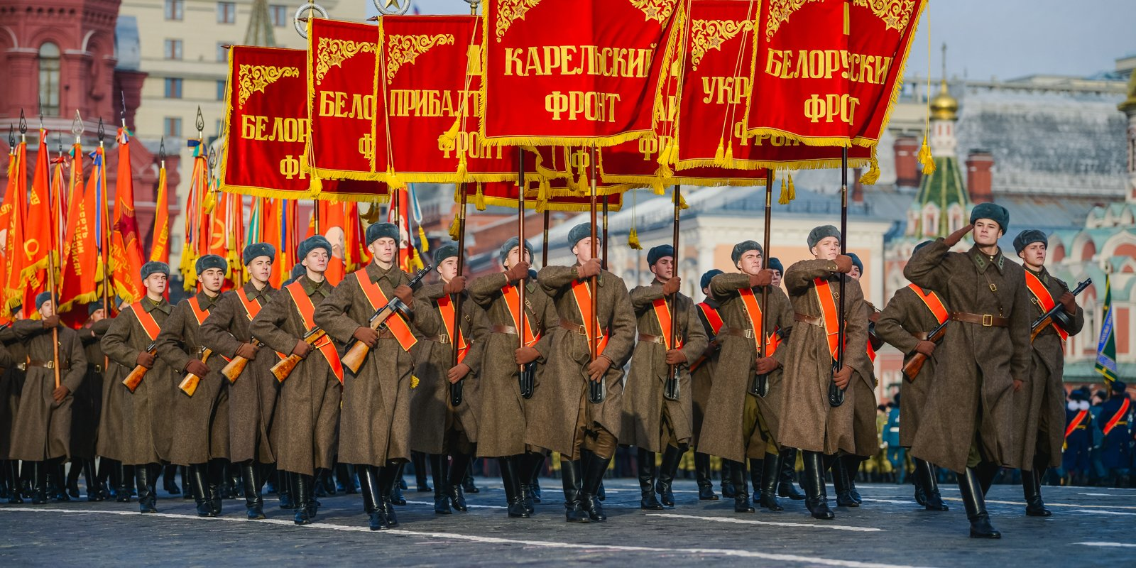 Red Square hosted a ceremonial march-past involving 5,000 people.